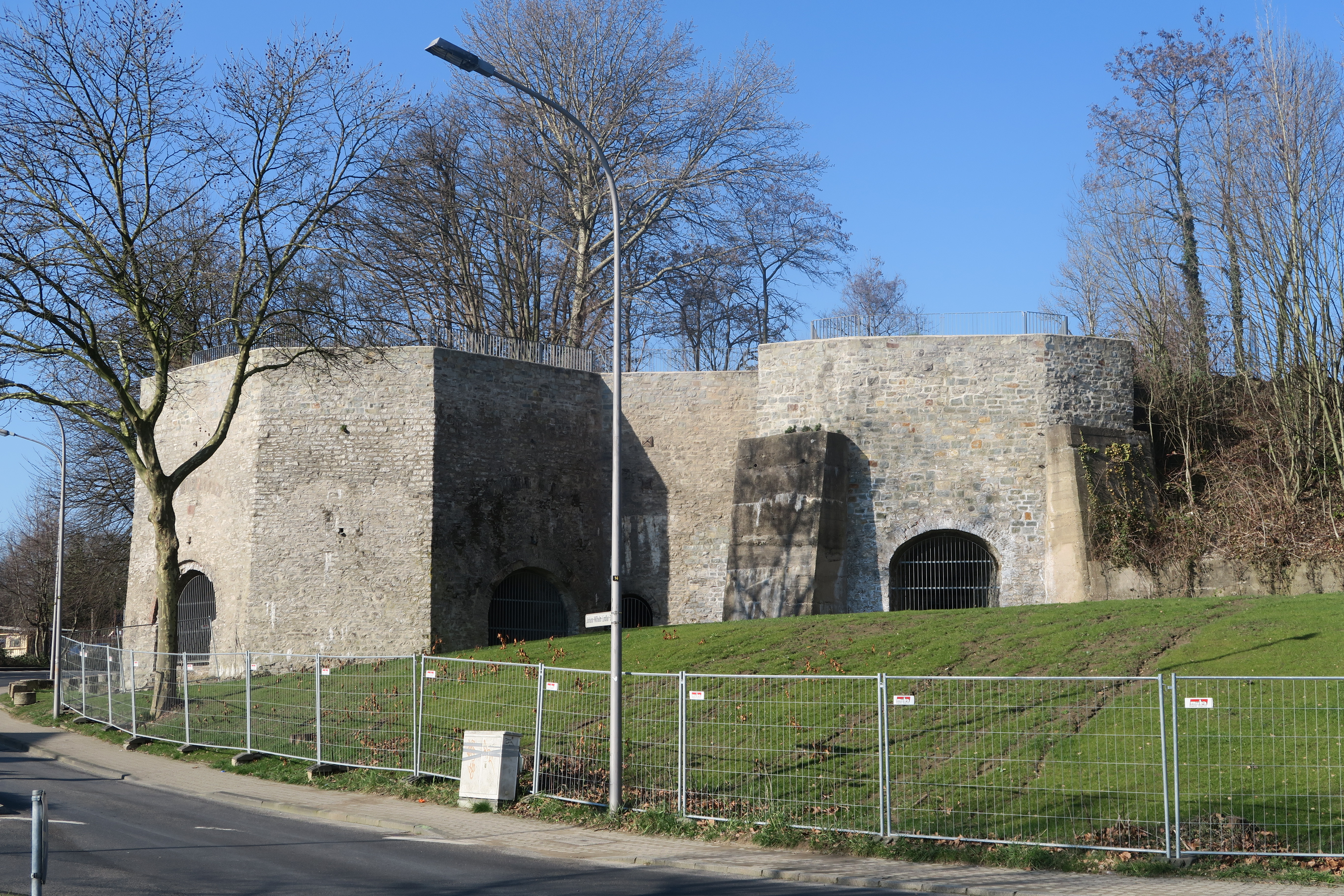 Bergisch Gladbach (NRW, Germany) town centre: former limekiln plant This is a photograph of an architectural monument.